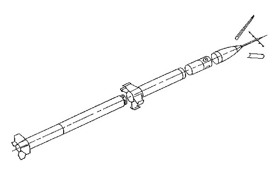 M-100 sounding rocket shape.